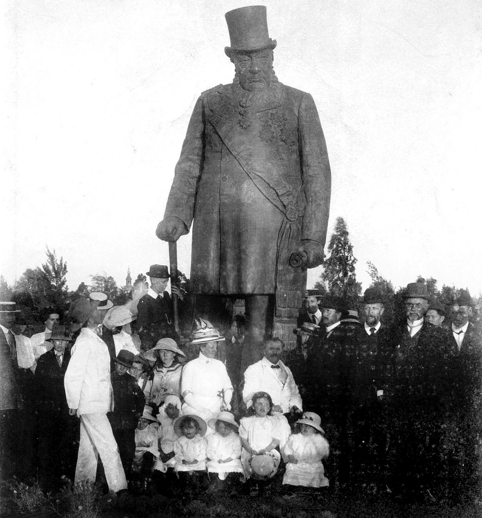 Kruger statue, Pretoria, Princes Park, 1913